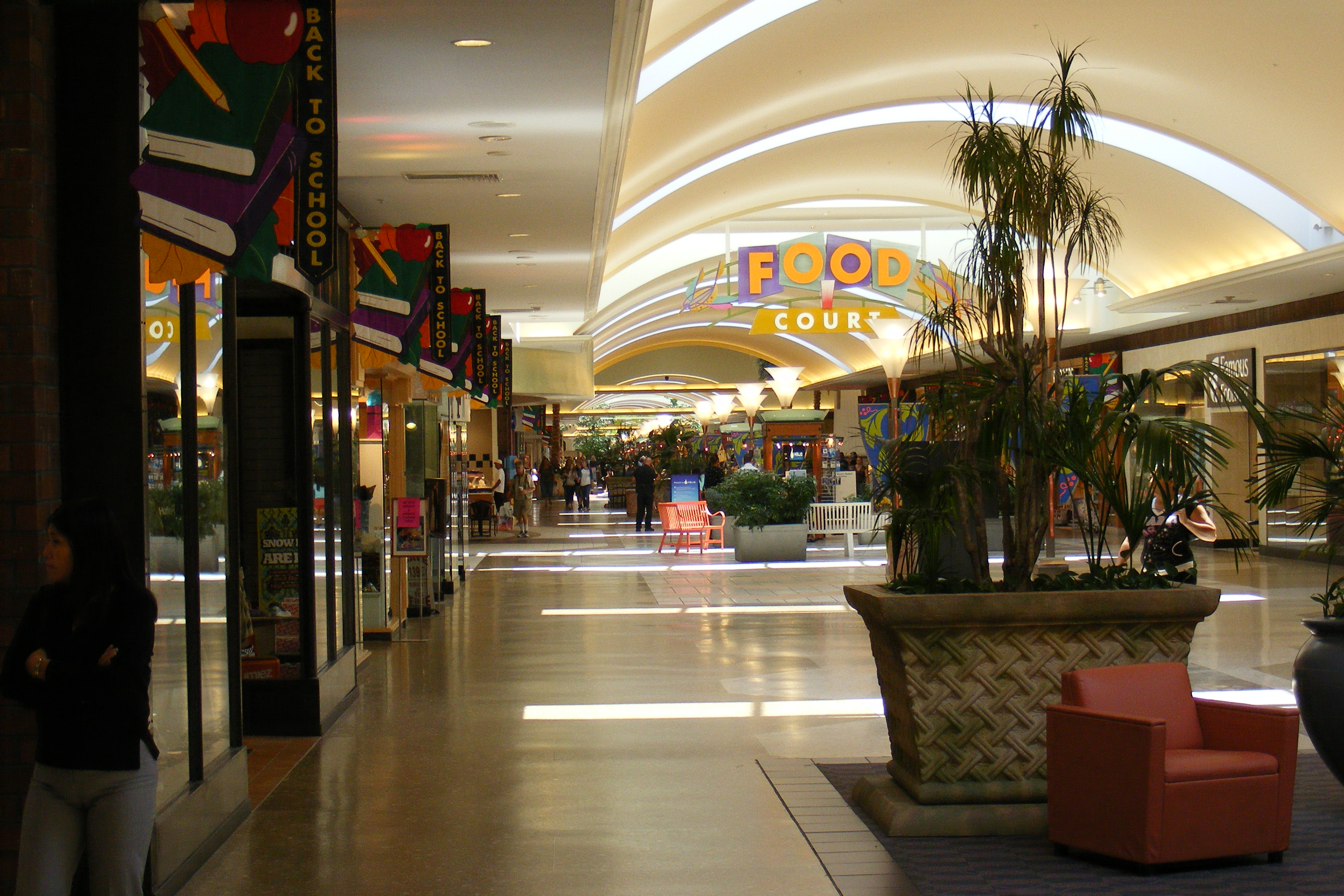 A photo of the inside of the Sunrise Mall in Citrus Heights, California.